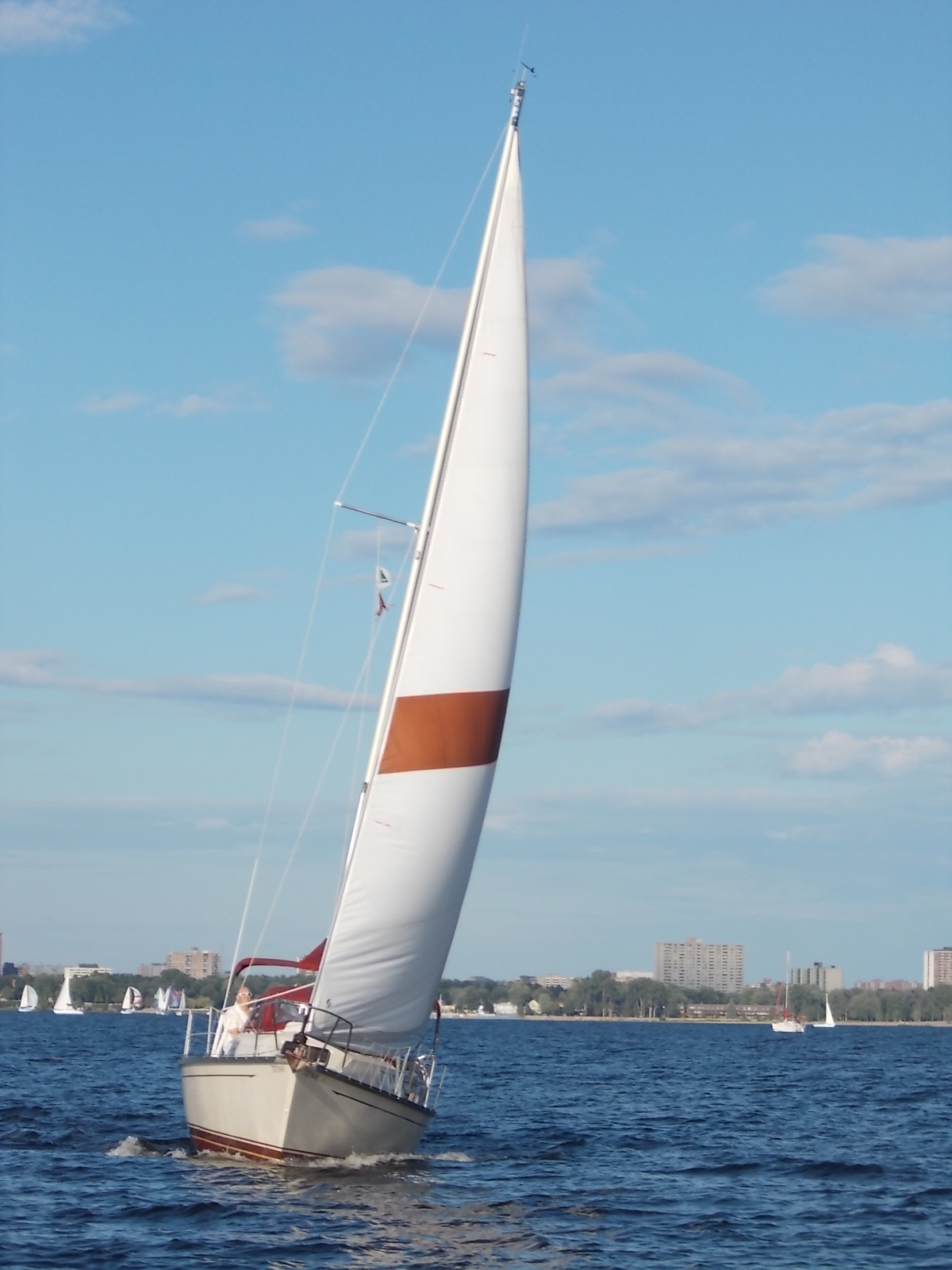 Mirage 30 on Lac Deschênes, part of the Ottawa River, Ottawa, Ontario, Canada